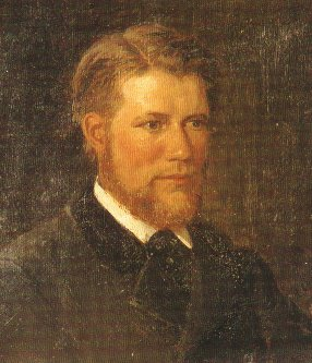 Contemporary painting of Adelsteen Normann (1848-1918) Self-portrait?